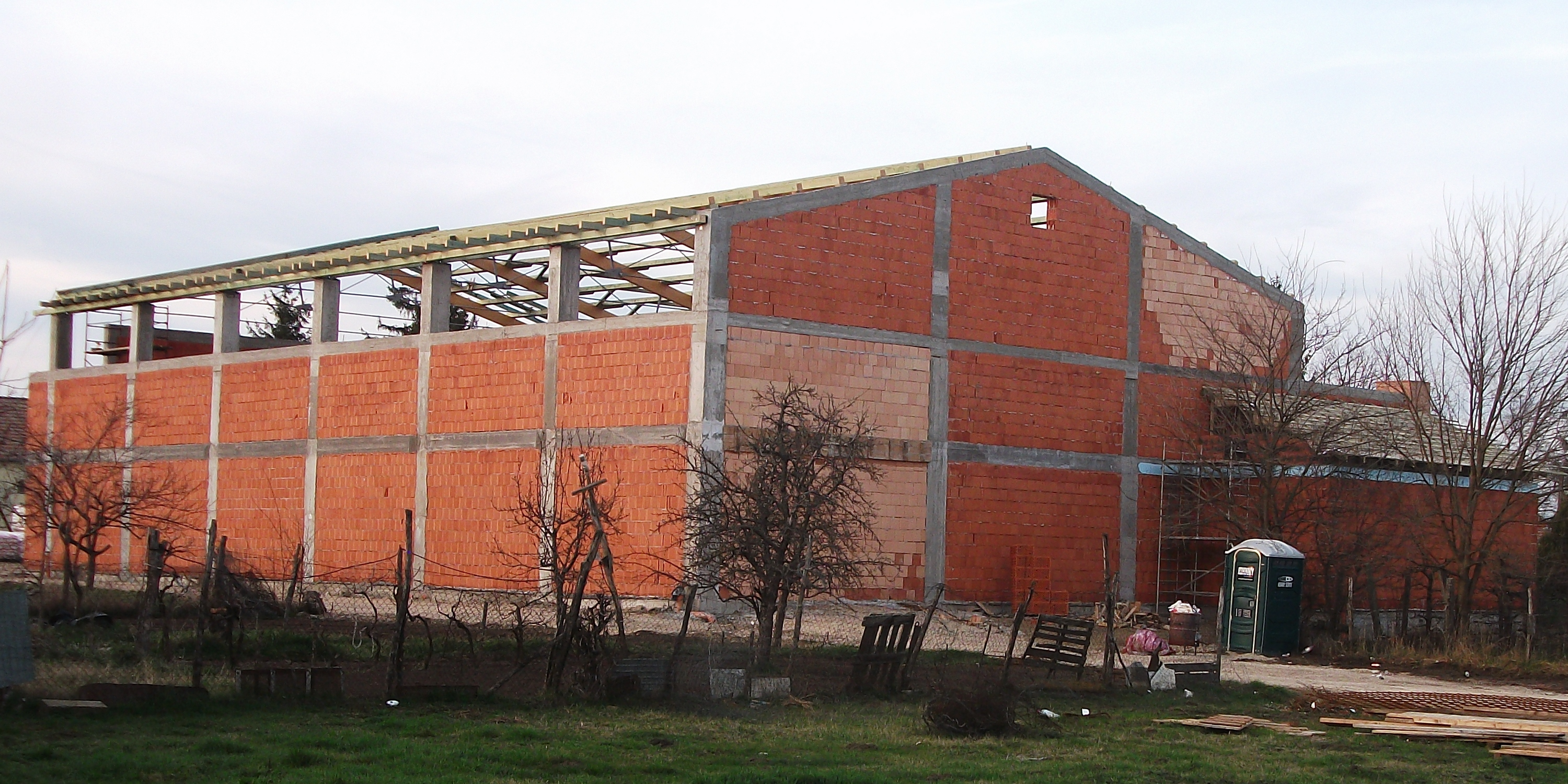 Building of gym in Zichyújfalu.